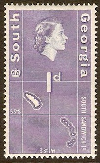 1d stamp from South Georgia showing a map of the island (SG #2)